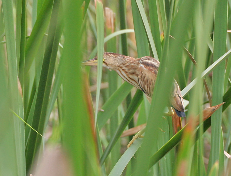 Yellow Bittern Ixobrychus sinensis in Kolkata, West Bengal, India.